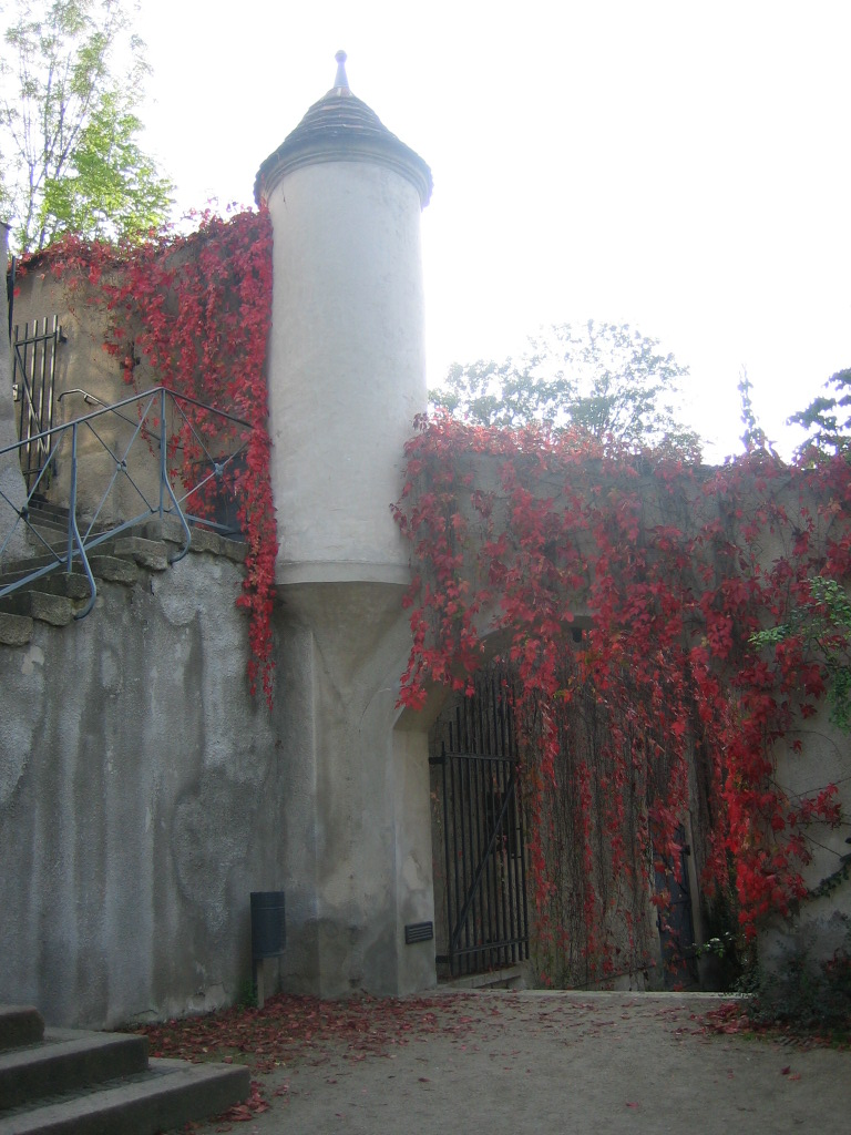 Görlitz, Wall - Fortification "Ochsenbastion" Medieval Görlitz